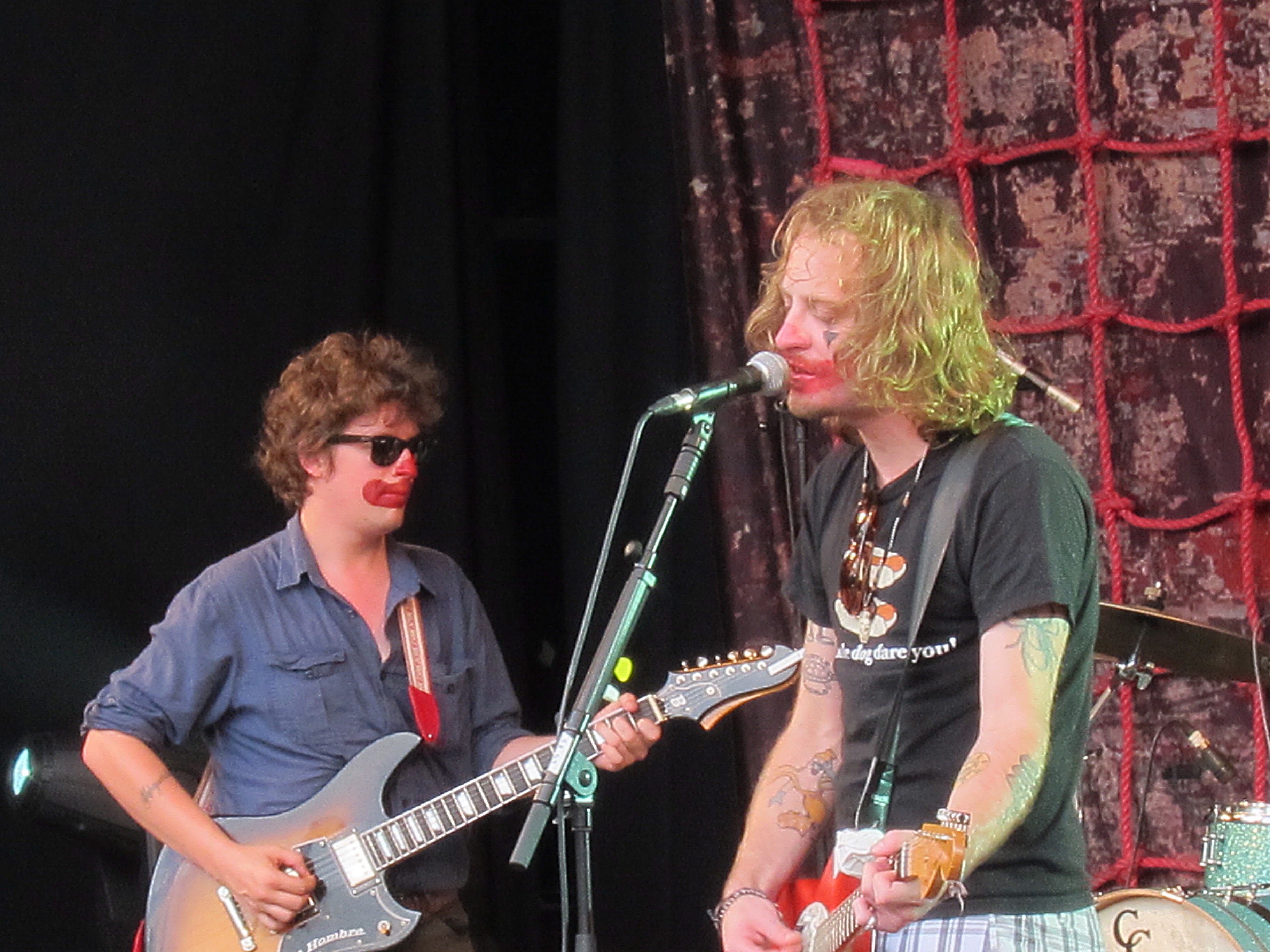 Main stage, Summer Sundae festival, Leicester, 19 August 2012